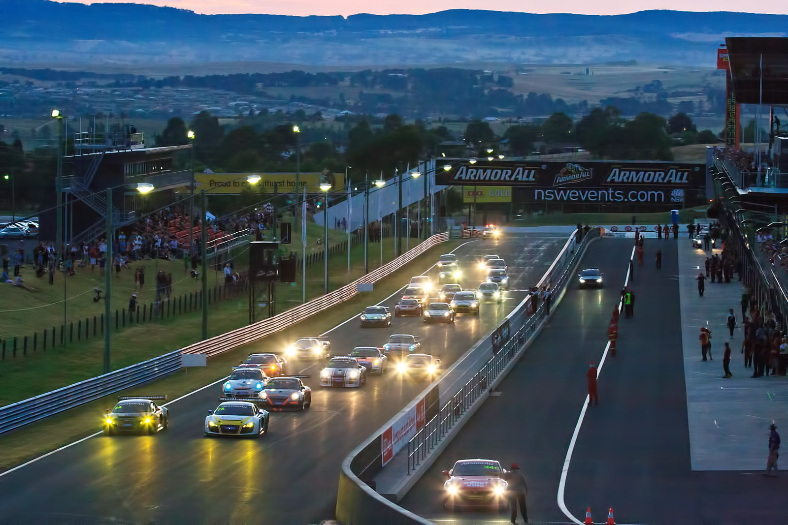 Bathurst, New South Wales, (Australia) 12 hour endurance race, 2011